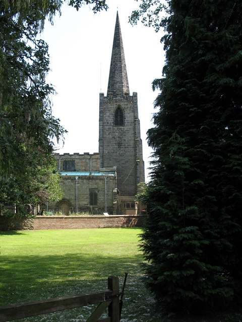 Attenborough St Marys Church